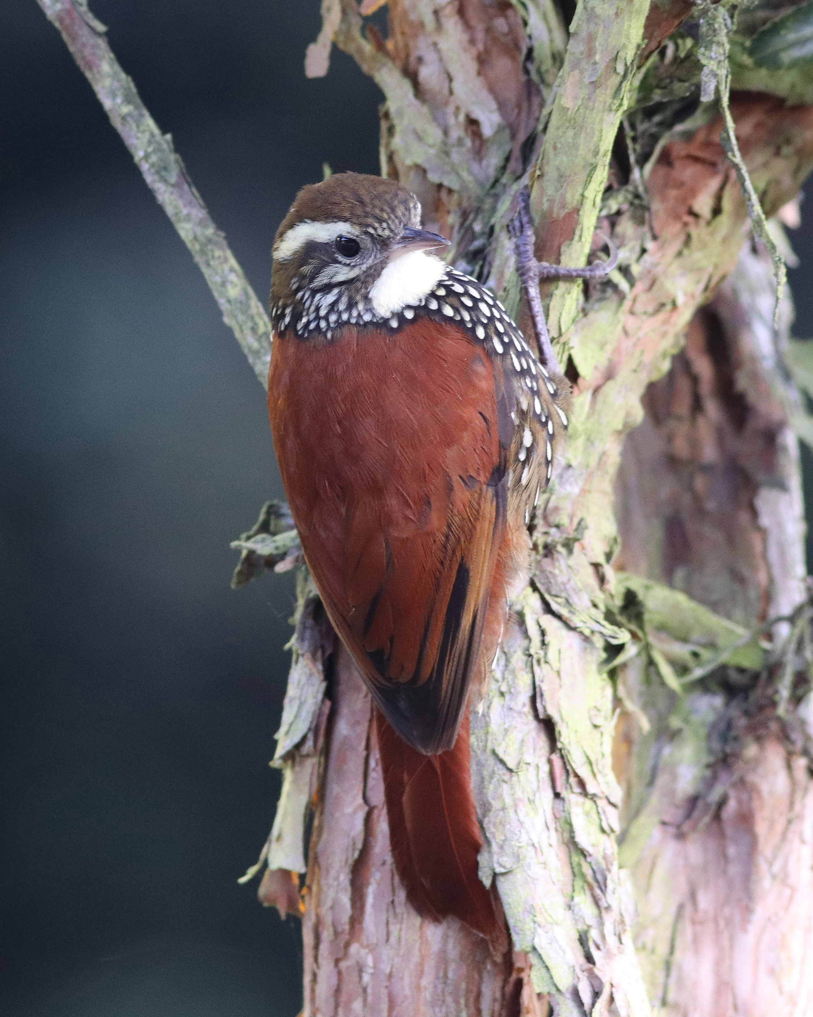 Pearled Treerunner clinging to a tree trunk in Yanacocha Reserve, Ecuador